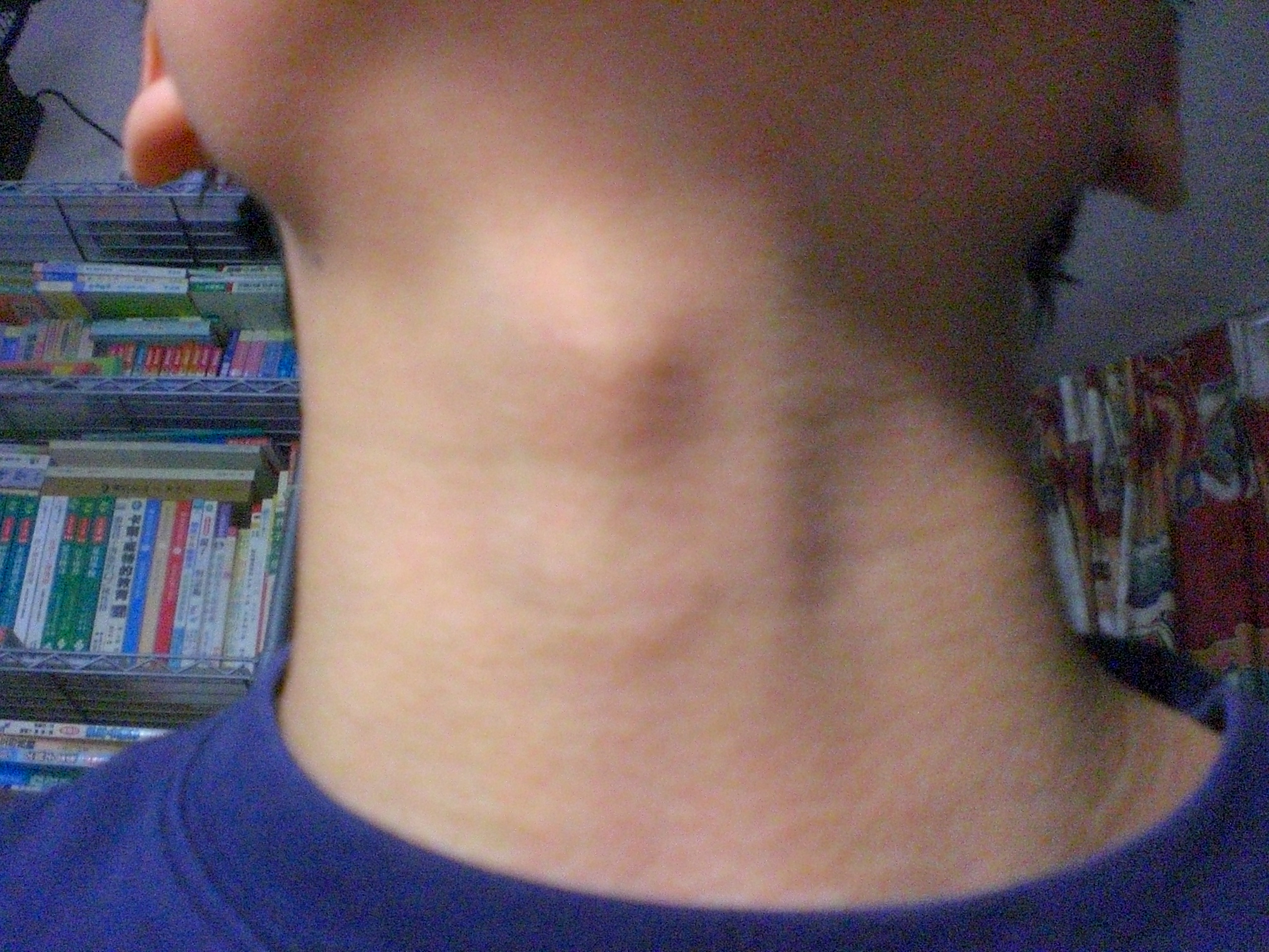 I took this photo by just holding the camera in front of me. I'm just stepping into puberty and the Adam's apple just grew so I think it might be useful for the Commons. (And for Wikipedia too, as that's my major wiki.)